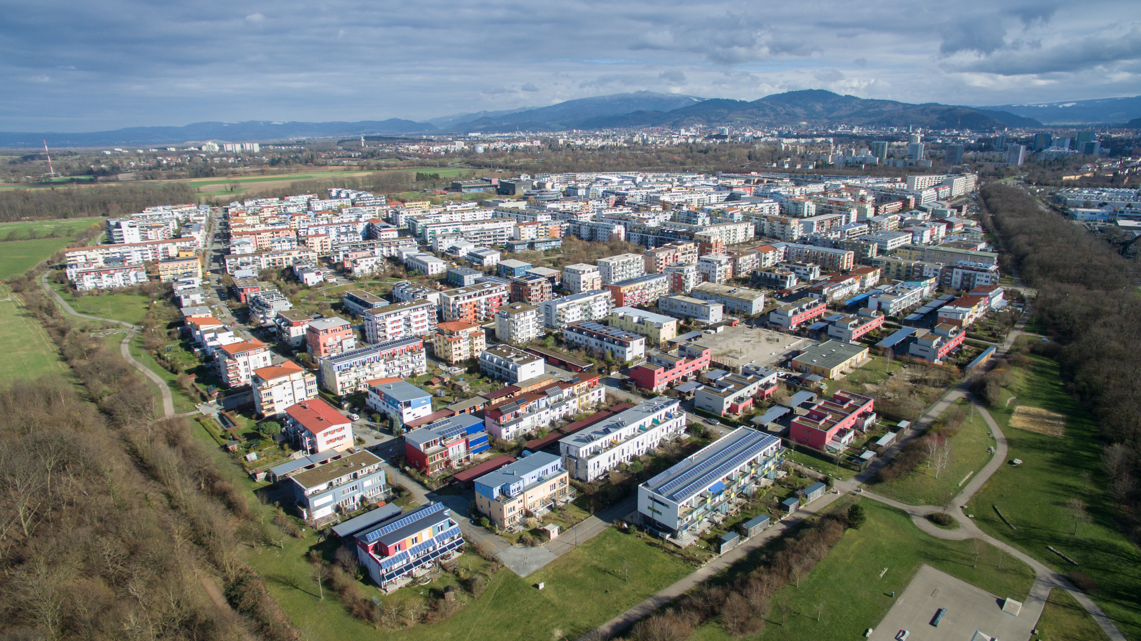 Aerial Freiburg Rieselfeld